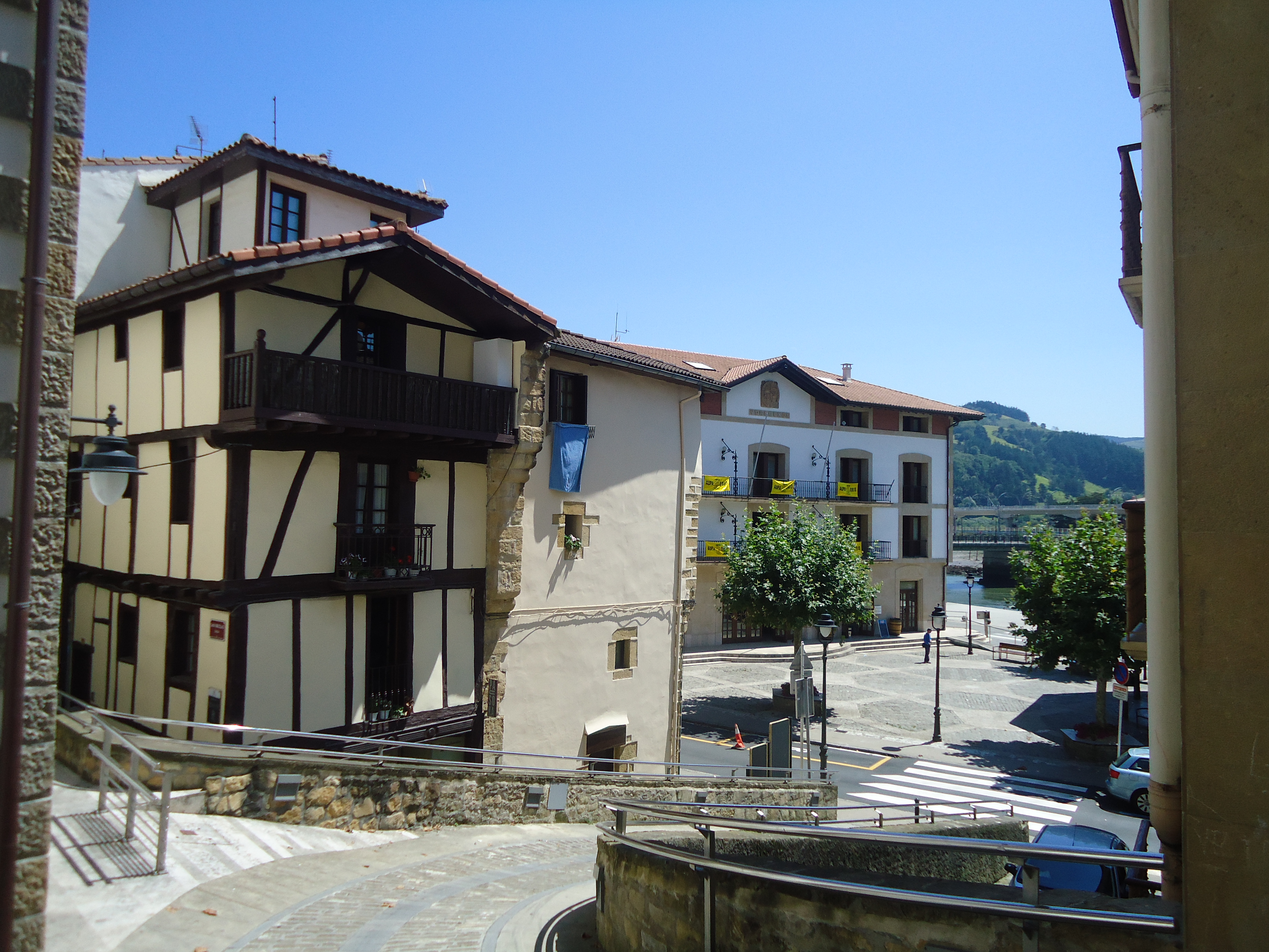 Town Hall of Orio (Gipuzkoa, Basque Country)